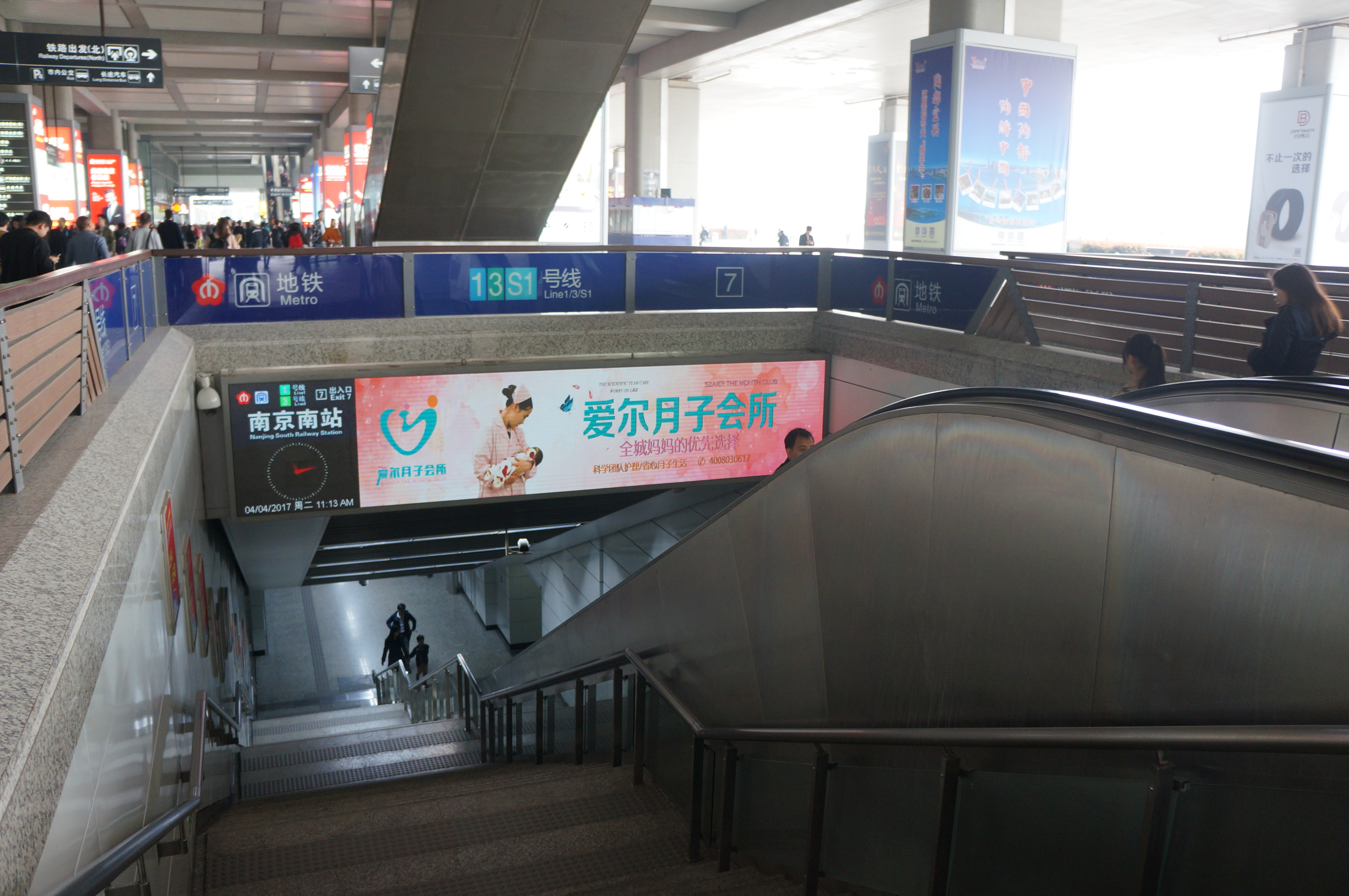 201704 Exit 7 of Metro Nanjing South Railway Station, located outside the northern entrance.